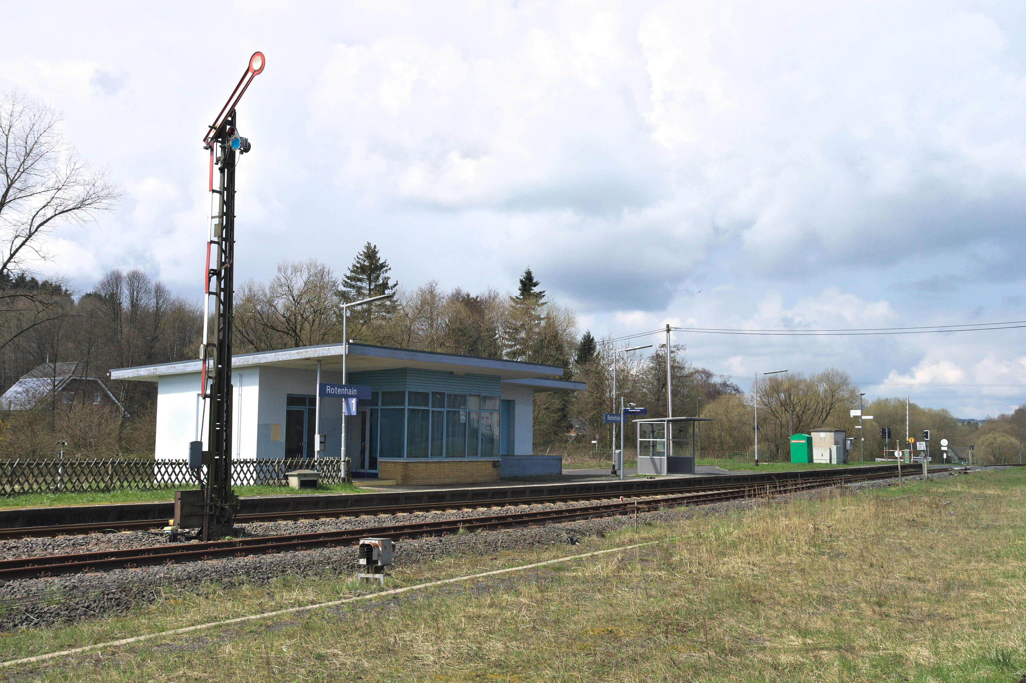 Railway station Rotenhain at the Oberwesterwaldbahn (Altenkirchen-Limburg, Germany). Location: Between Rotenhain and Stockum-Püschen next to road K71